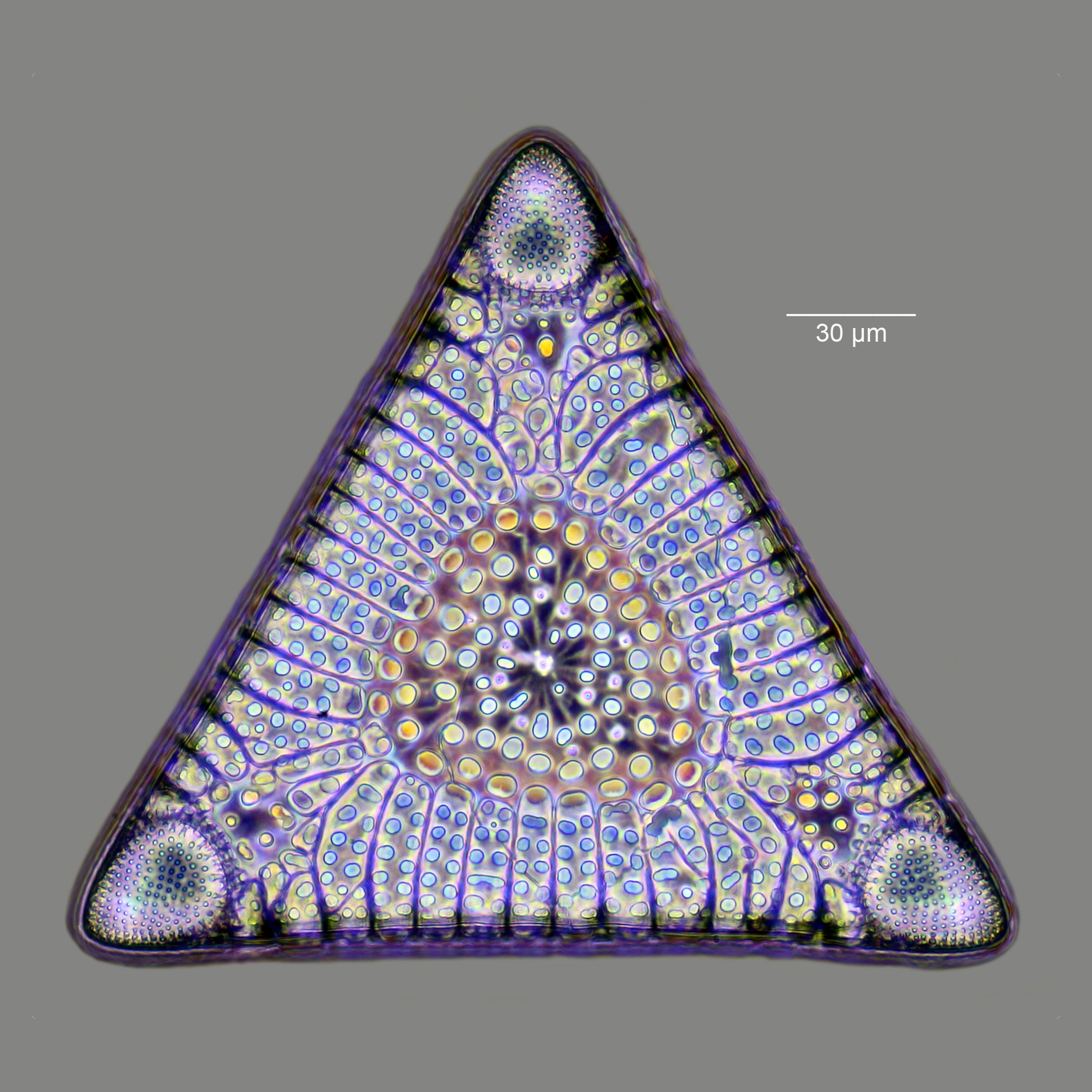 Fossil Diatom Frustule - Triceratium morlandii var. morlandii Grove & Sturt The diatomite sample is from Oamaru field (New Zealand), age: 32-40 million years old. Light microscopy, for frustule detailed elaboration was used variable phase contrast.